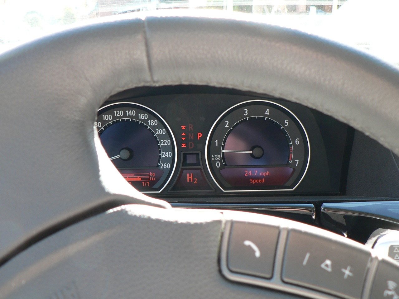 See that H2 on the dash? Today, I got to test drive the BMW Hydrogen 7, a 7 Series vehicle in every way except for the fuel source. The exhaust? Pure water vapor.